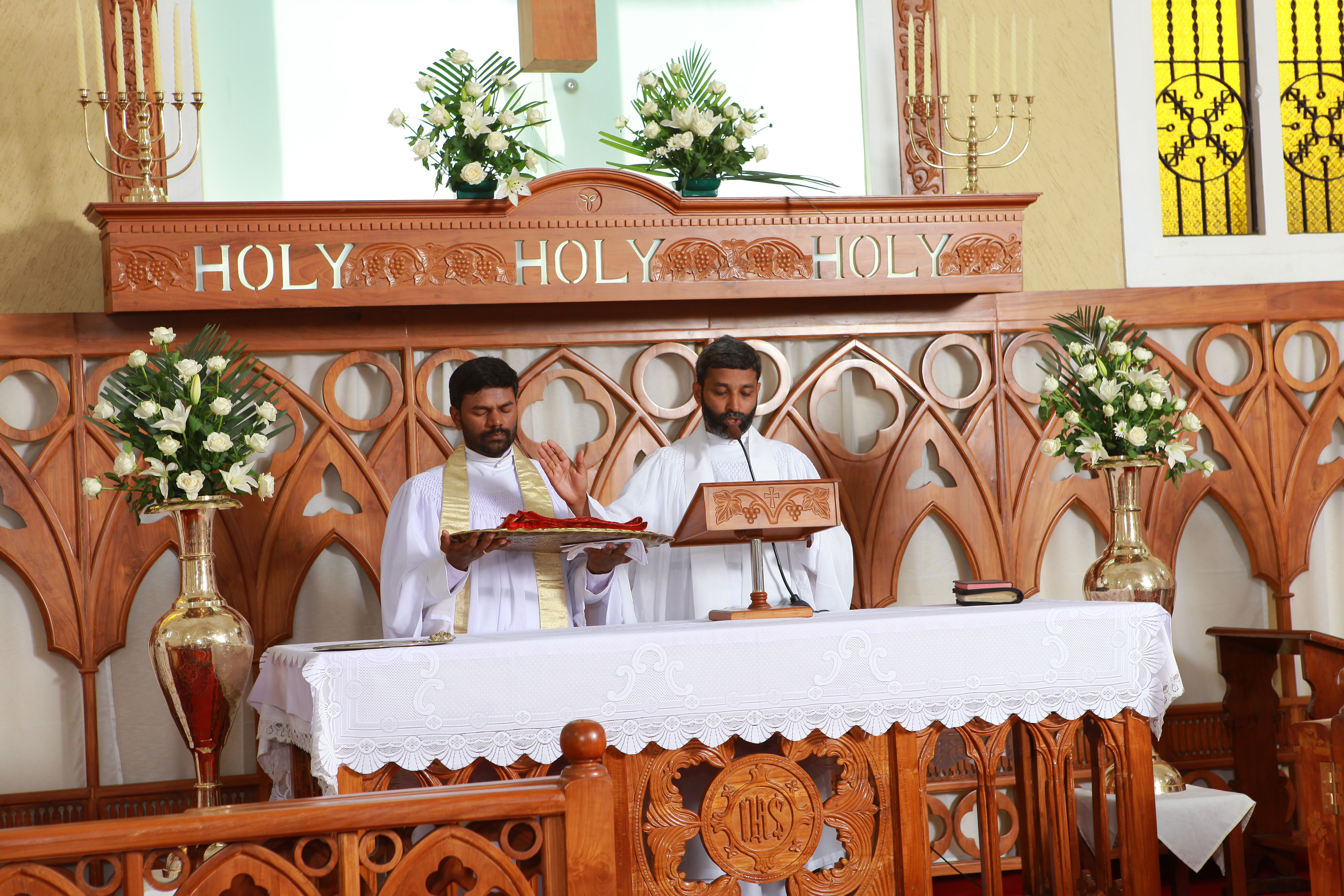 Vicar